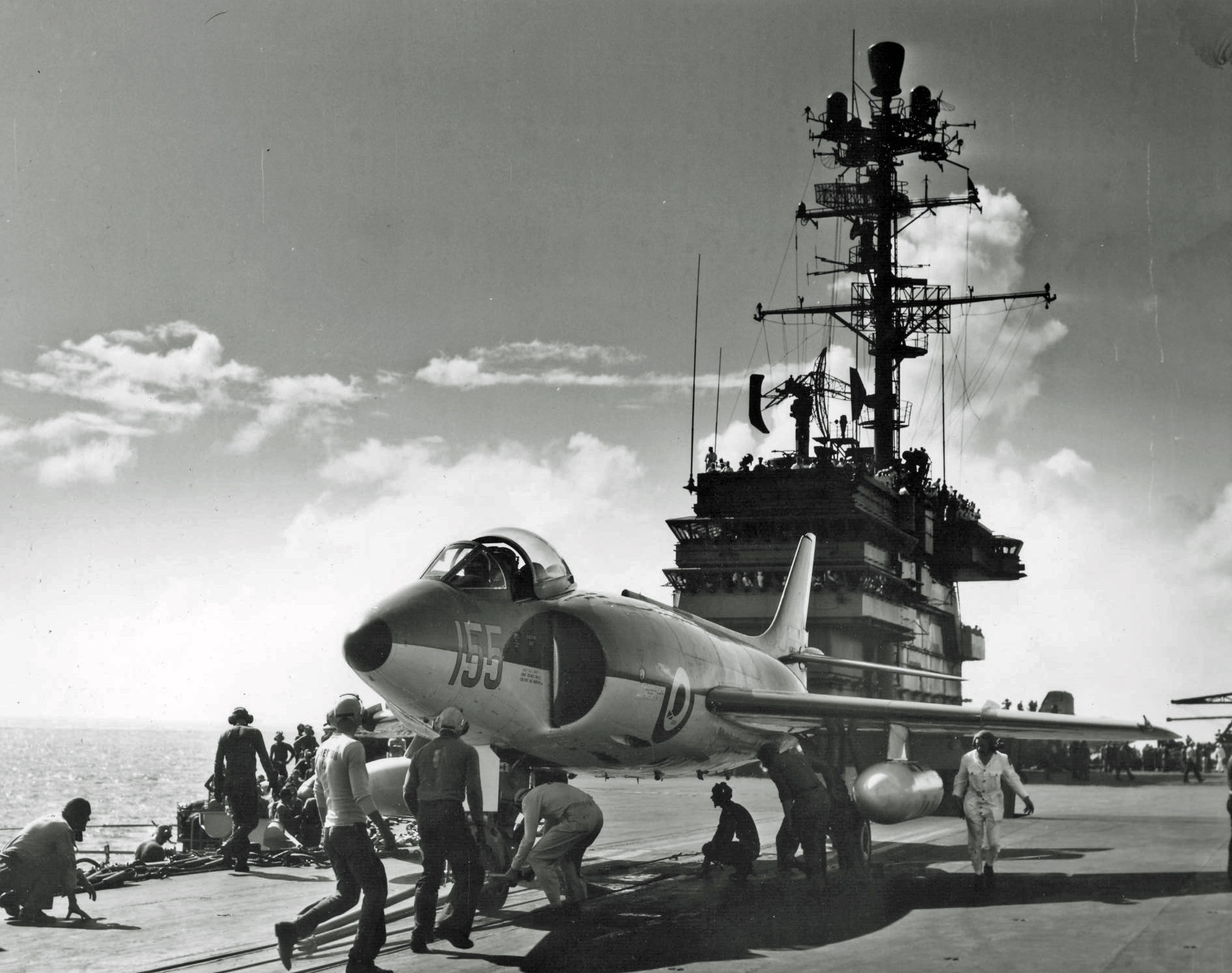 A British Royal Navy Supermarine Scimitar F.1 being readied for launch from the U.S. aircraft carrier USS Saratoga (CVA-60), 1957-1959.